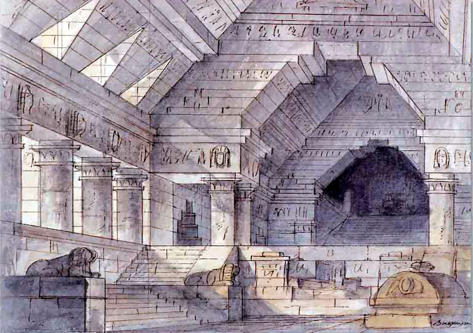 Francesco Bagnara's stage set (1824) for Giacomo Meyerbeer's Il crociato in Egitto (Act II, Scene 4)